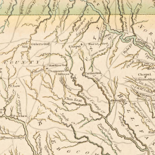 An excerpt of John Collet's 1770 map of North Carolina depicting several plantations and settlements in Bute County.